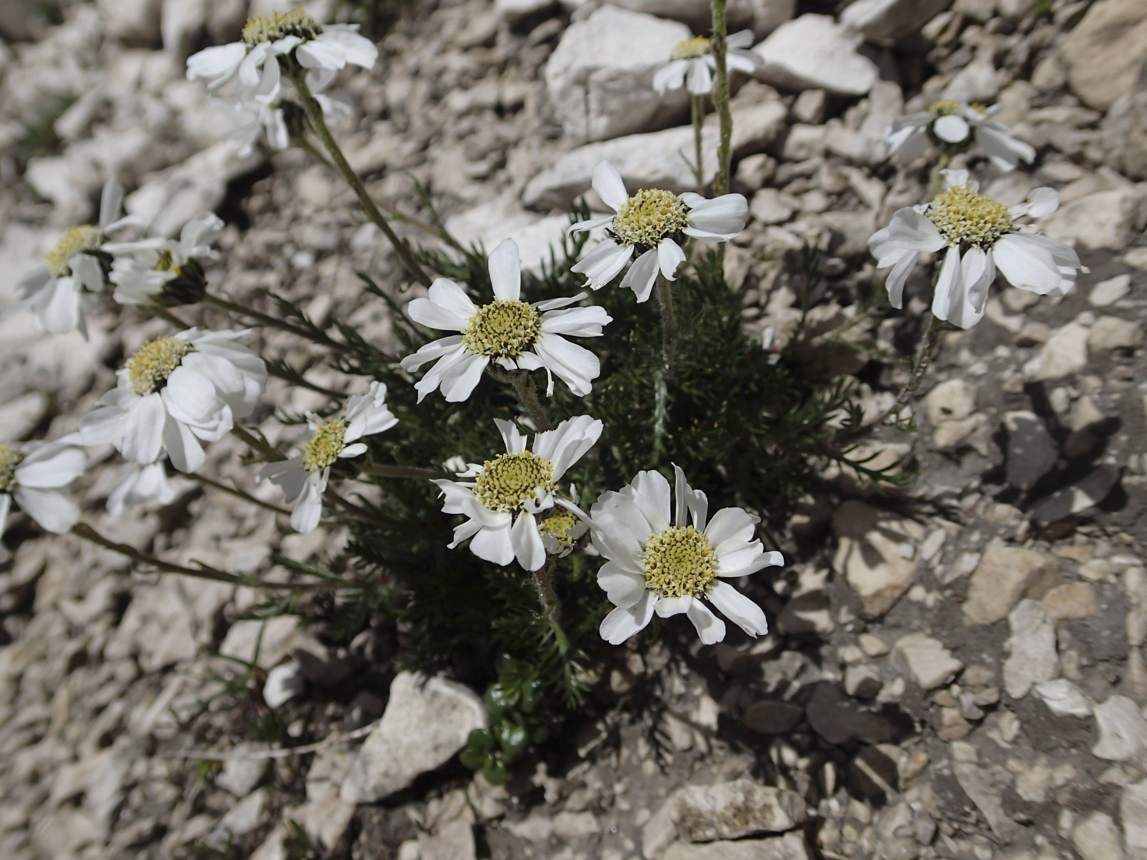 Achillea oxyloba